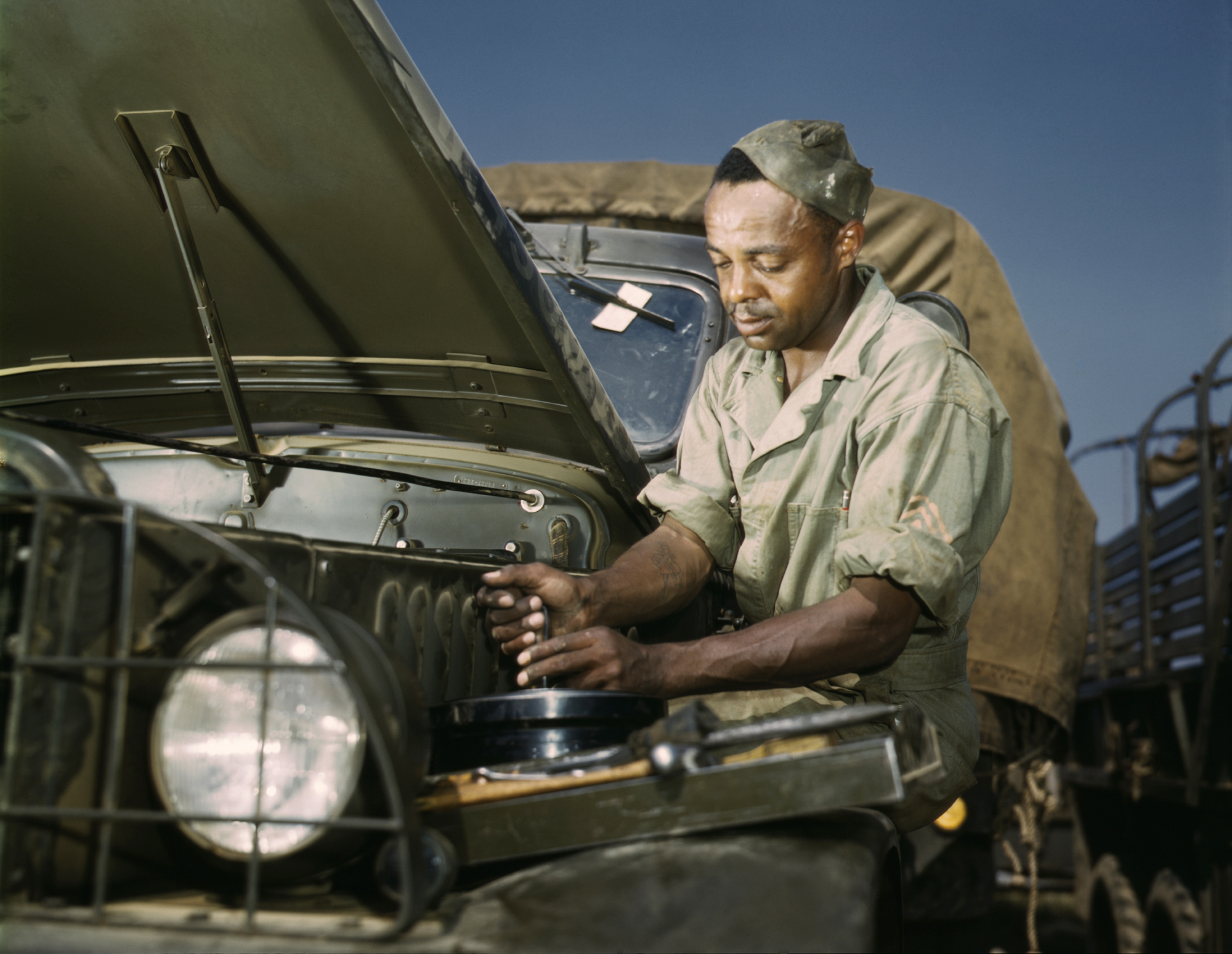 Original caption "Colored mechanic, motor maintenance section, Ft. Knox, Ky."